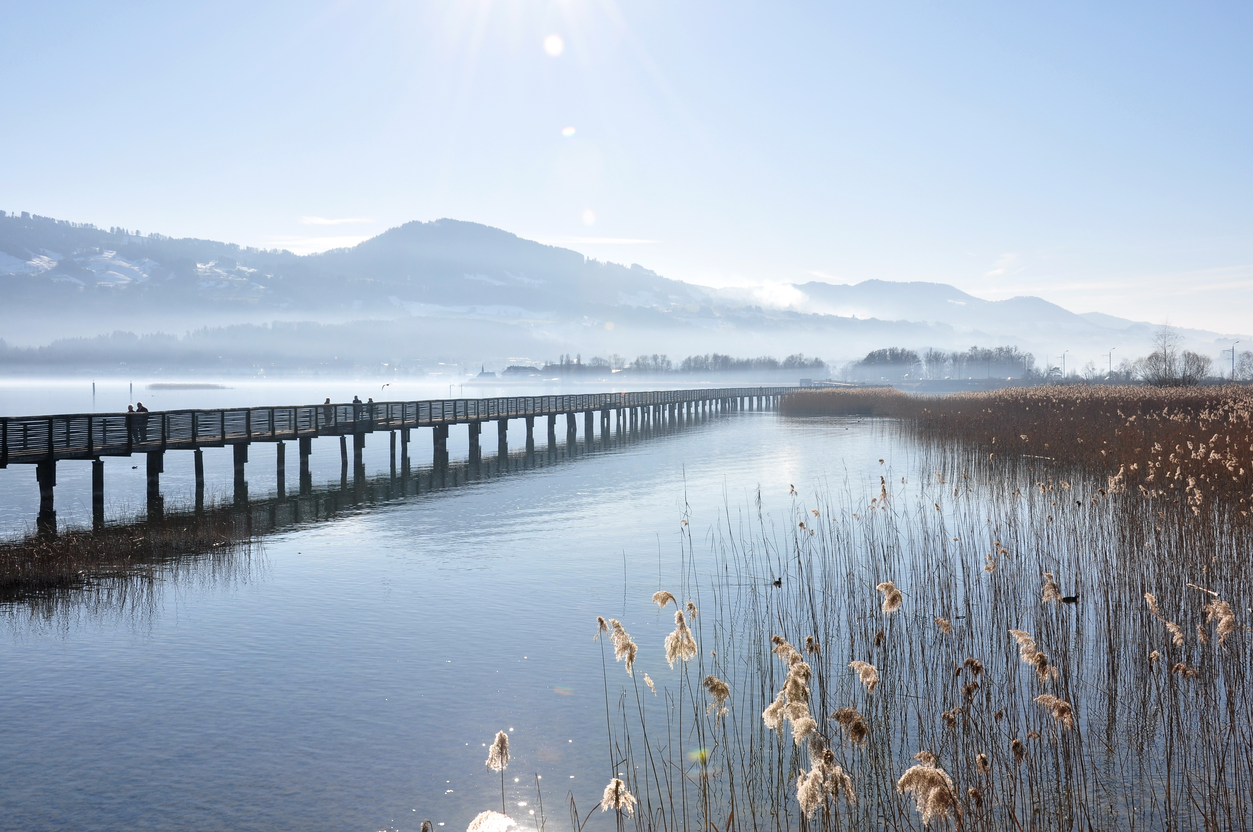 Rapperswil (Switzerland) : Holzbrücke (wooden bridge) between Rapperswil and Hurden, crossing Obersee (upper Lake Zurich), Seedamm to the right, Etzel mountain in the background.